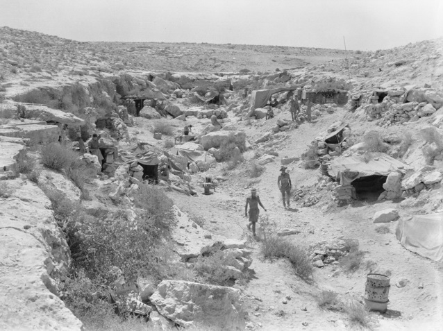 Troops from the 2/23rd Australian Infantry Battalion in Libya